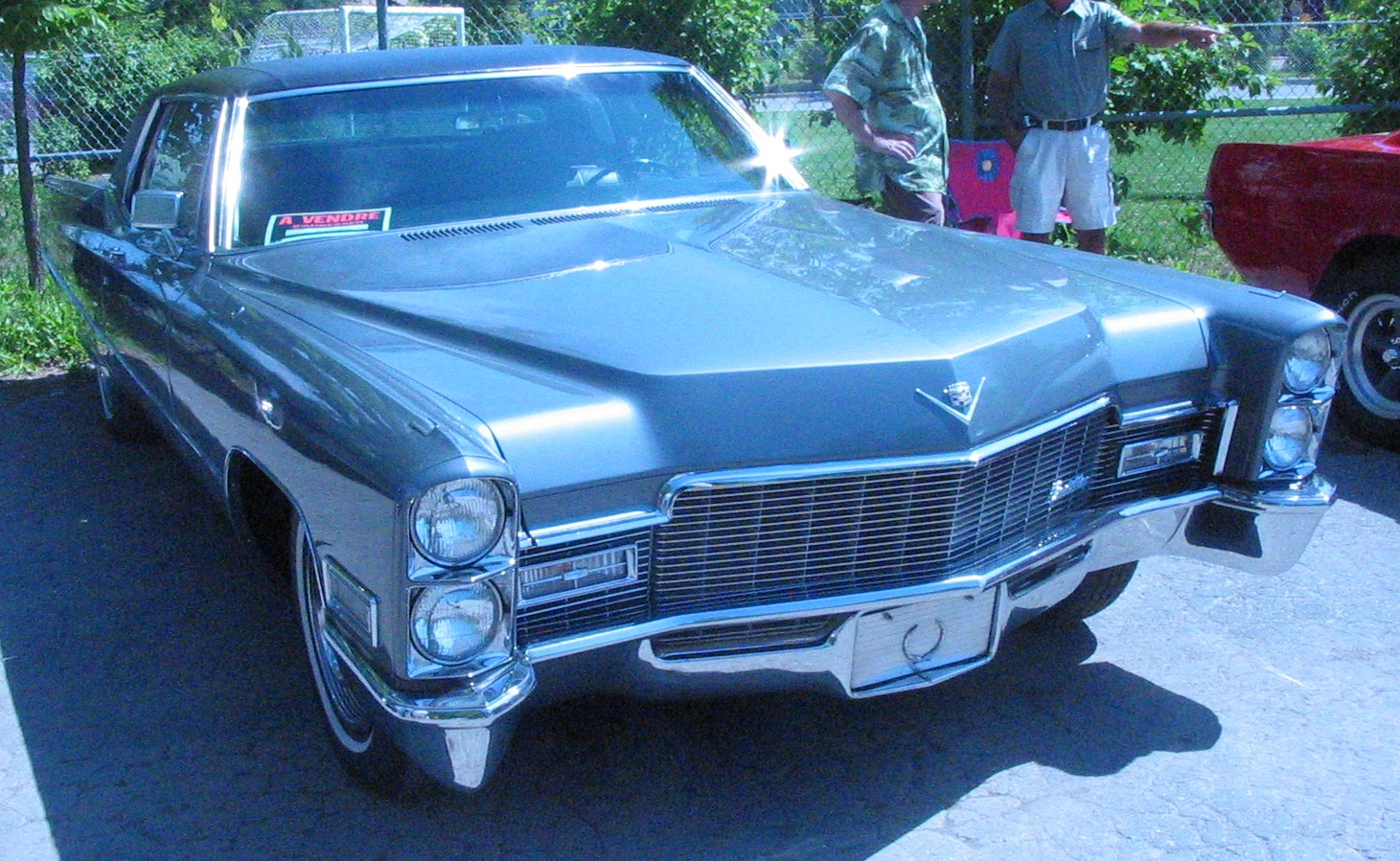 1968 Cadillac Coupe De Ville photographed in Laval, Quebec, Canada at the Auto classique Laval.